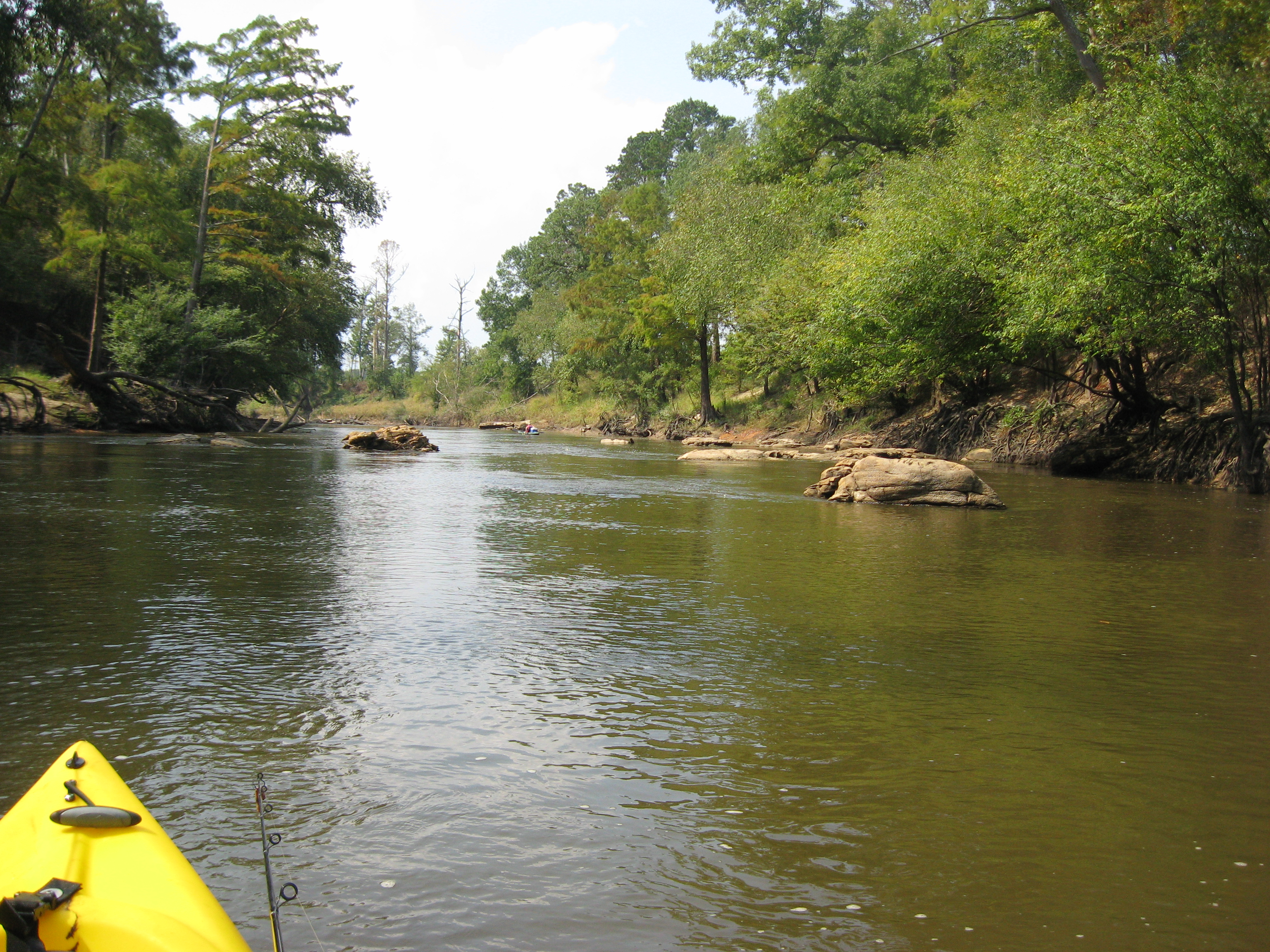 Sabine River between HWY 59 and FM 1794